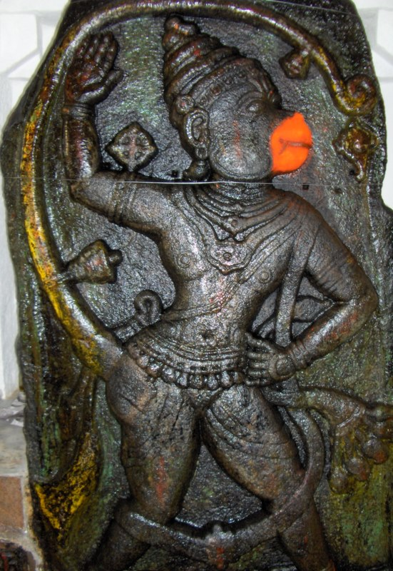 This is the picture of the Aanjaneya idol taken in the Aanjaneya swamy sannidhi in bajgur